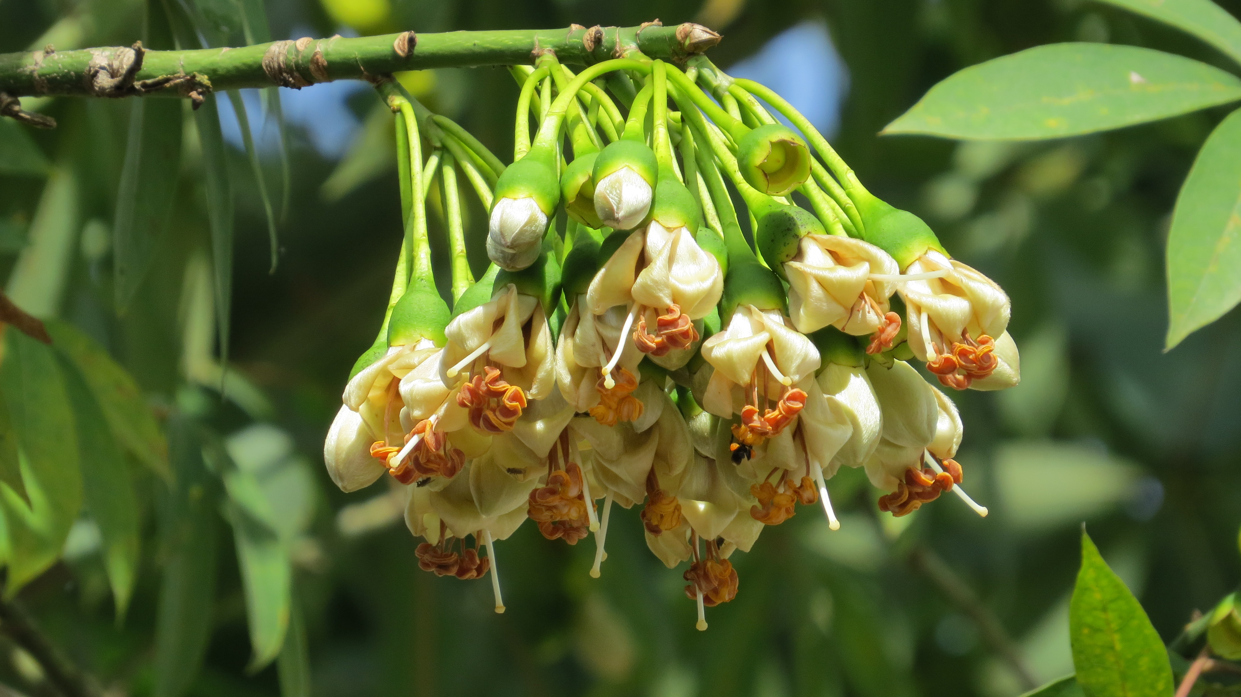 The flowers of Ceiba pentandra/Kapok